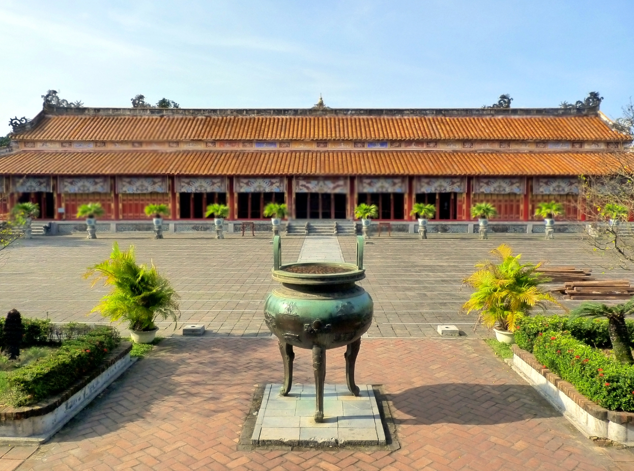 The Mieu Temple within the Imperial City, Hue, Vietnam. The Citadel was badly damaged duing various wars, but this building remains.